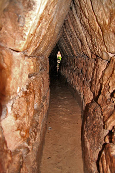 A spring in Hubella